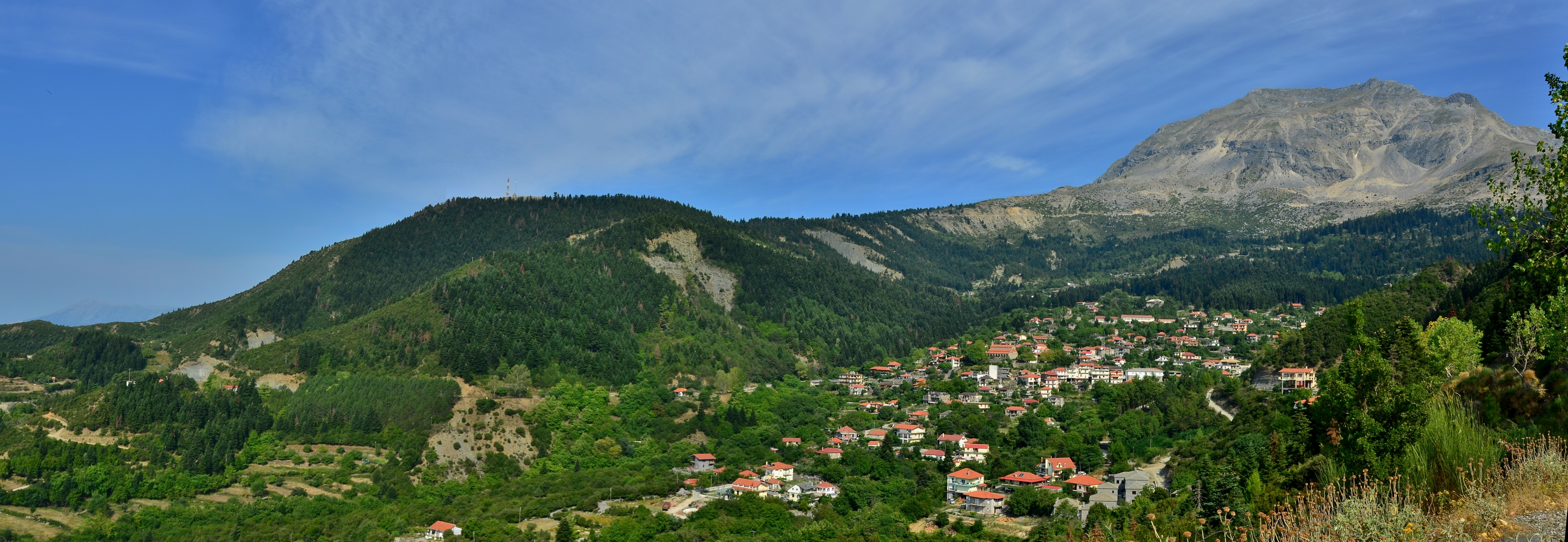 Voulgareli panorama